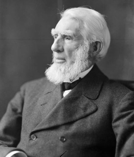 Booth, John Rudolphus 1826 - Dec. 8, 1925